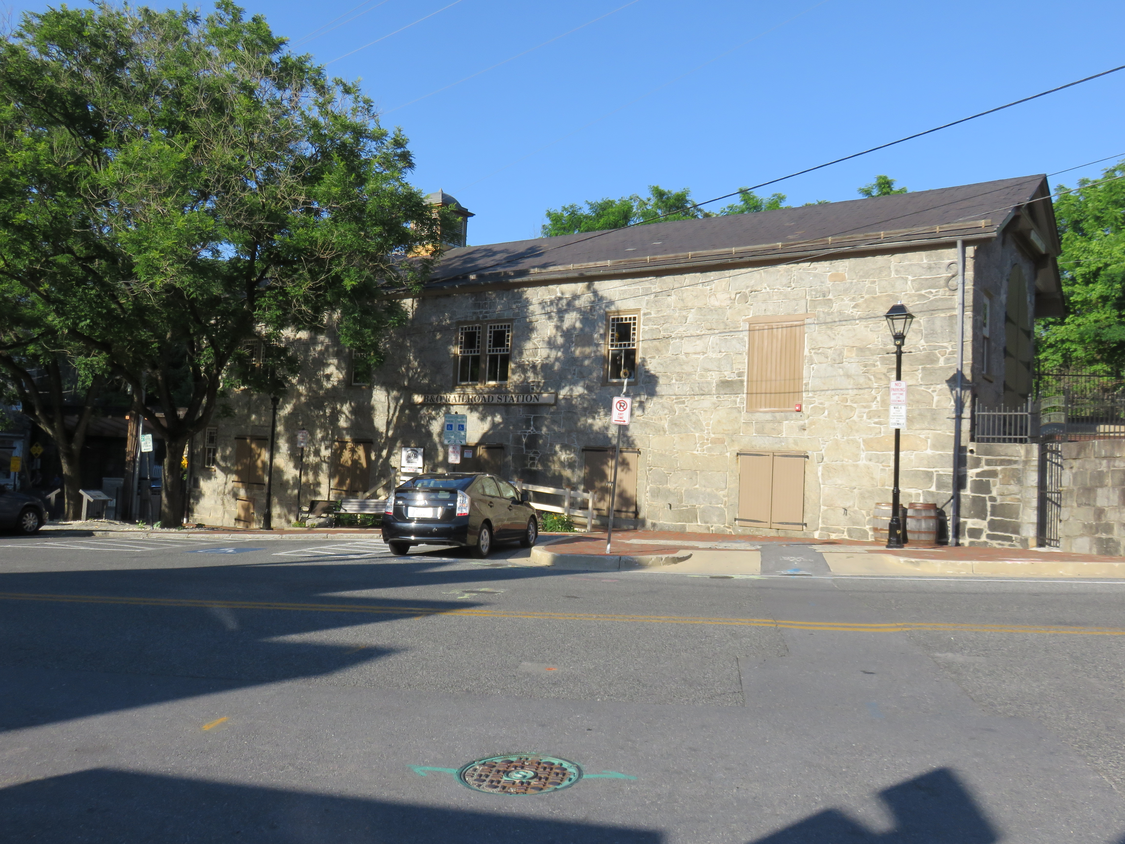 Ellicott City station in Ellicott City, Maryland in 2020